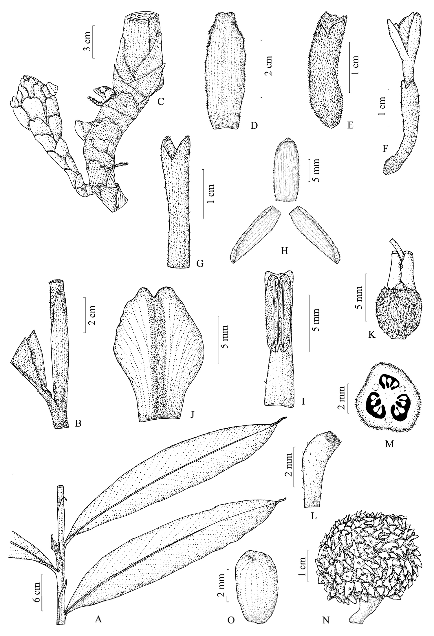 Amomum nilgiricum A. a part of leafy shoot B. ligule C. inflorescence D. bract E. bracteole F. flower G. calyx H. corolla lobes I. stamen J. labellum K. ovary with epigynous glands and style L. stigma M. c.s. of ovary N. fruit O. seed.